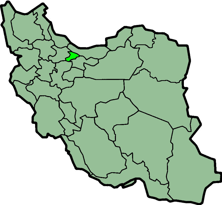 Alborz Province, Iran